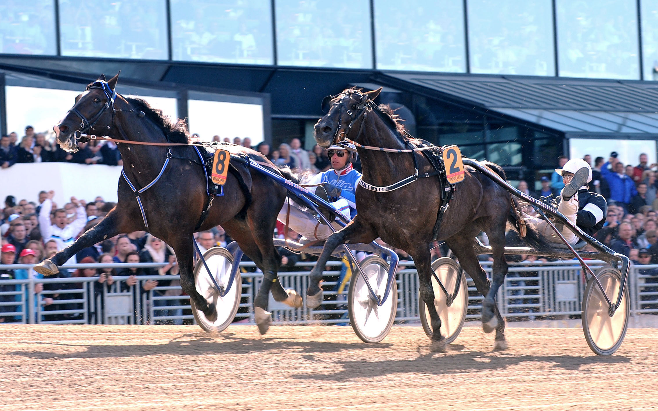 Brioni och Joakim Lövgren (ekipage nr. 8) vinner Elitloppet 2011 knappt före franske Rapide Lebel och Eric Raffin.